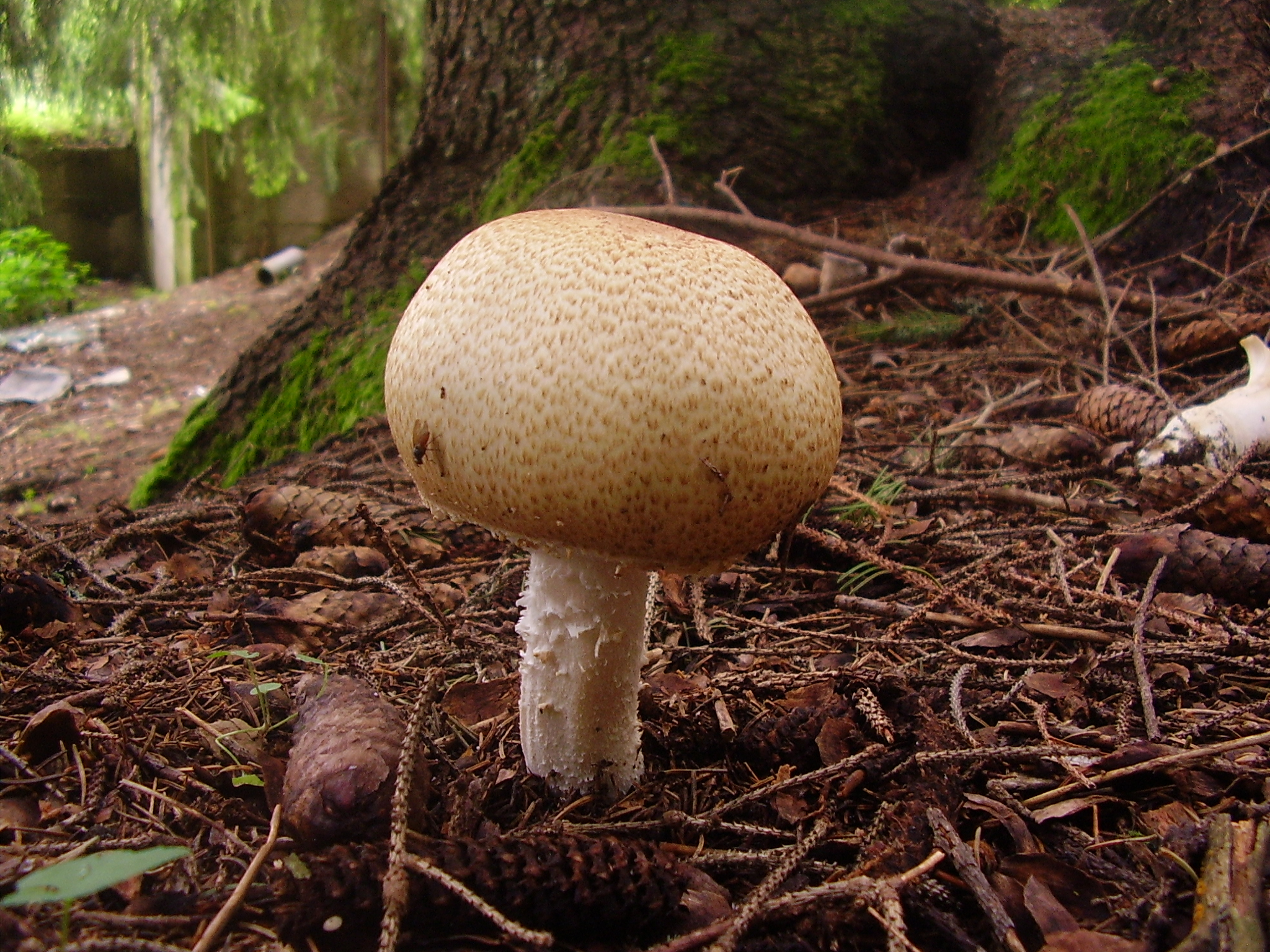 Agaricus augustus from coniferous forest near Dospat reservoir, Bulgaria.